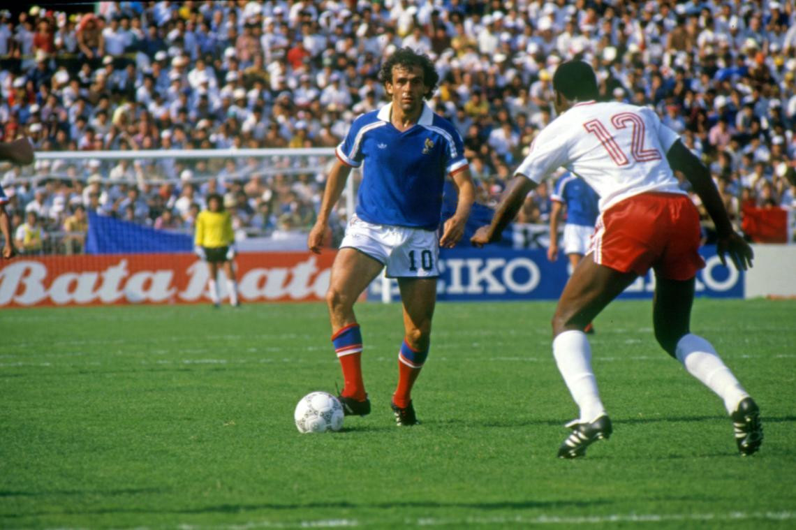 Michel Platini with the ball, being followed by Canadian Randy Samuel.